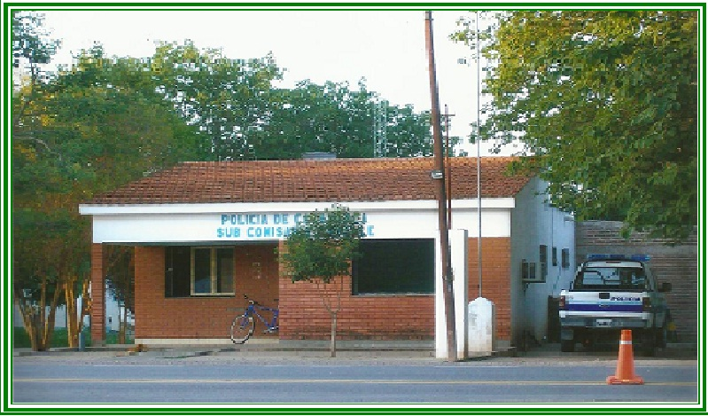 Sobre Ruta Nacional N° 64